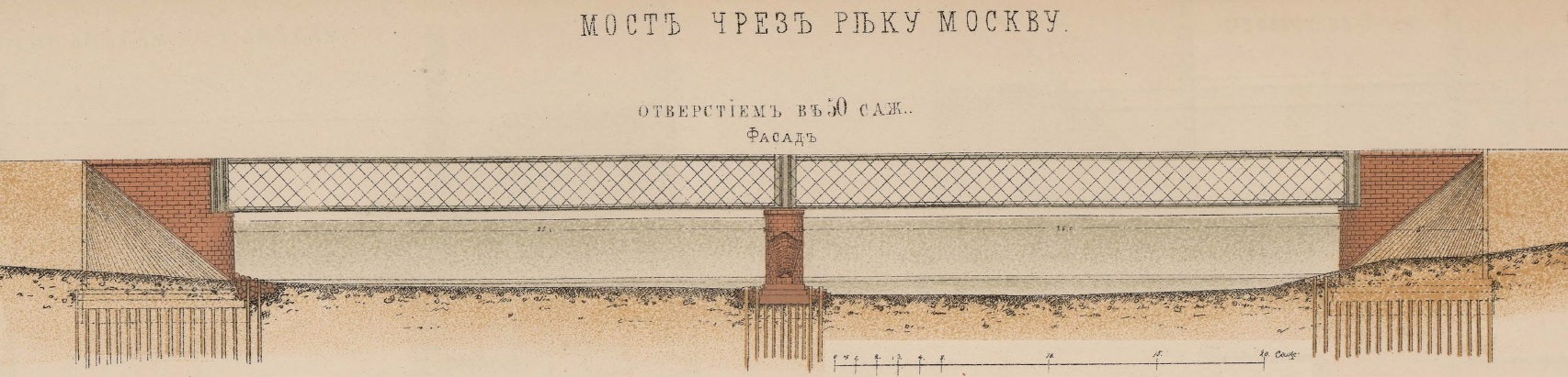 Bridge over the Moskva river. Moscow–Brest railway. Russian Empire